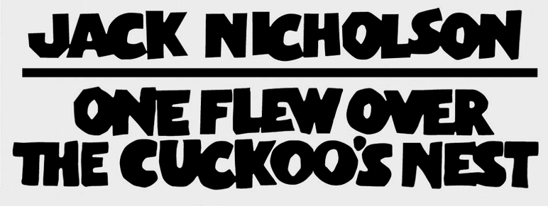 Crop from a One Flew Over the Cuckoo's Nest DVD cover.